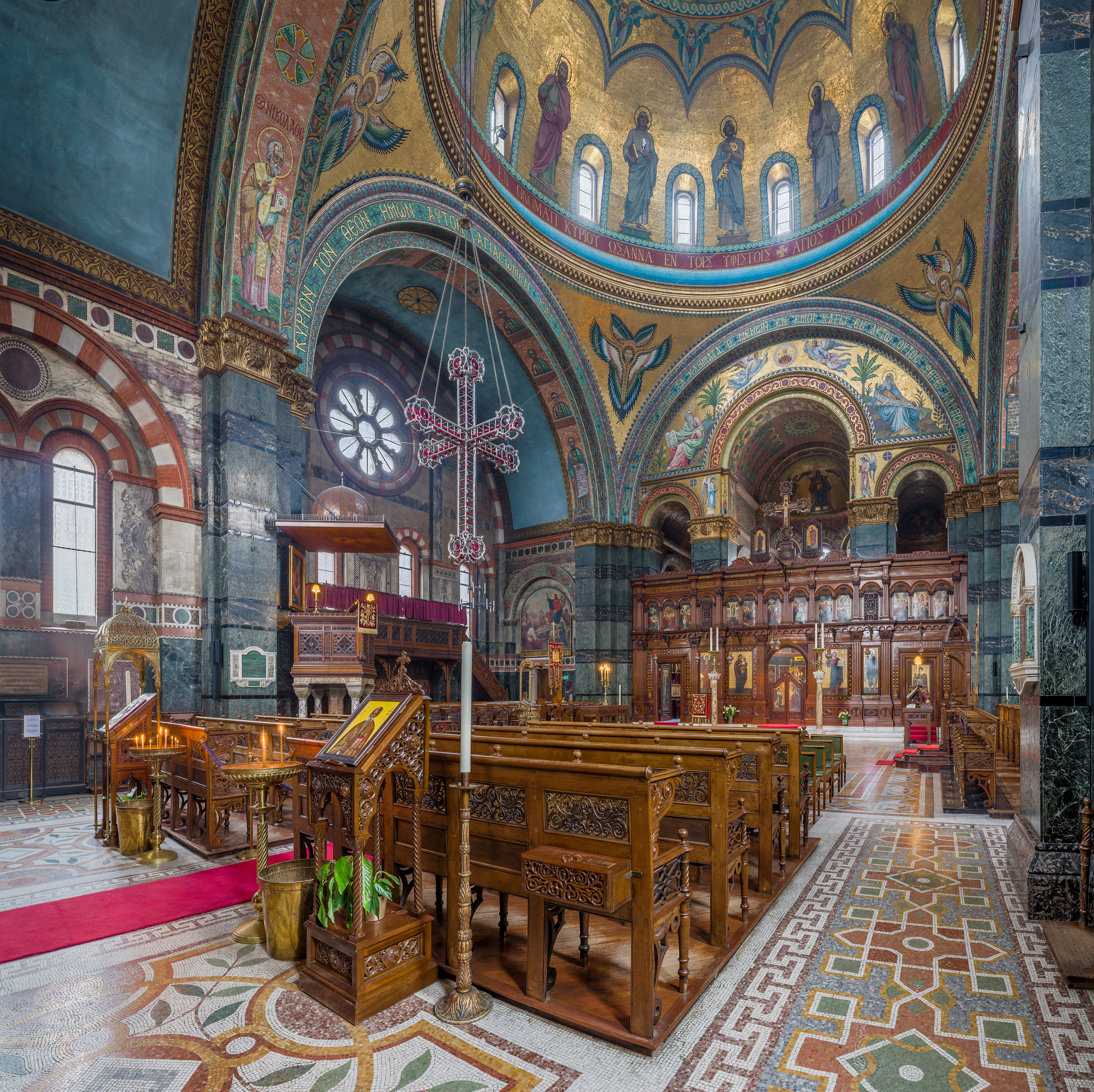 The interior of St Sophia's Greek Orthodox Cathedral in Paddington, London, England.